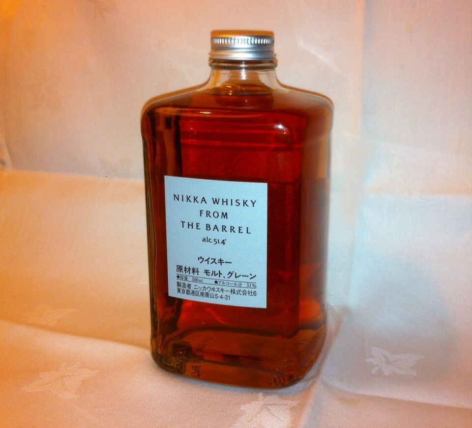 A Bottle of Nikka Whisky. (50cl)